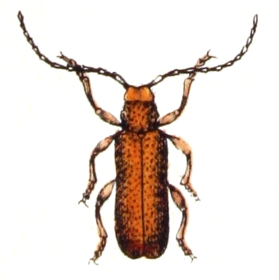 Anaesthetis testacea, from Calwer's Käferbuch, Table 39, Picture 8. Taxonomy was updated to 2008, using mostly the sites Fauna Europaea and BioLib. Please contact Sarefo if the determination is wrong!